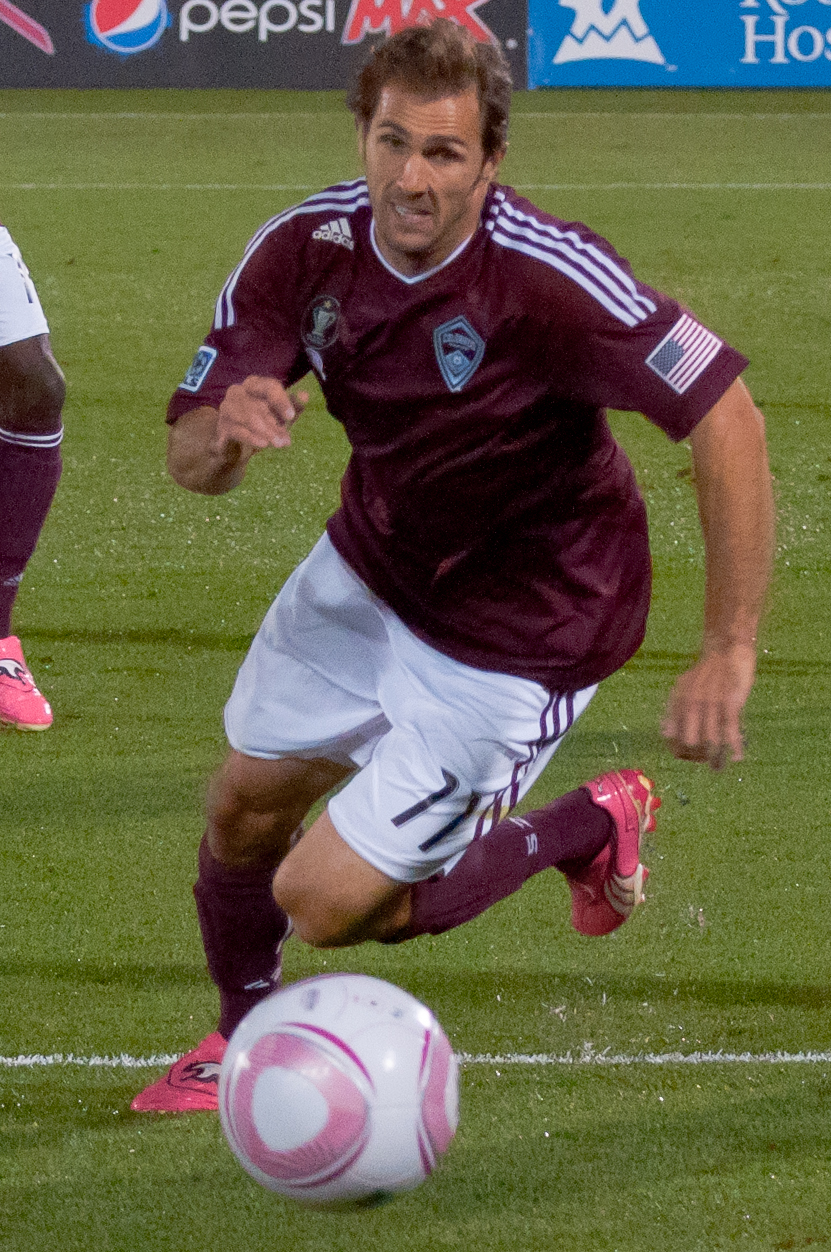 Photo of Brian Mullan in a match playing for the Colorado Rapids (MLS) 2011